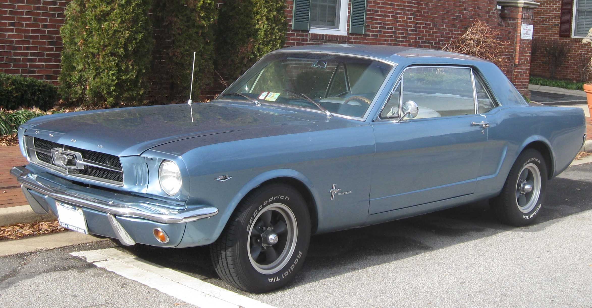 Ford Mustang photographed in Alexandria, Virginia, USA.